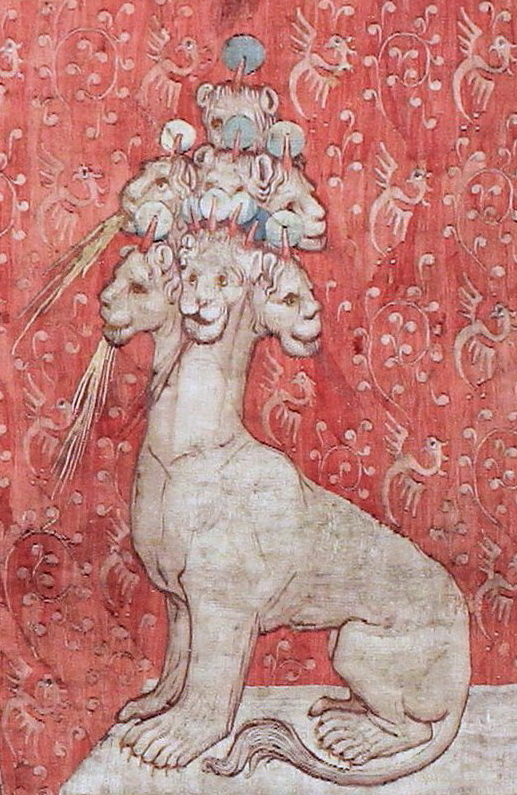 Château d'Angers; Angers; Pays de la Loire, Maine-et-Loire; France; Tenture de l'Apocalypse; no 45, L'adoration de l'image de la bête; Cultural heritage; Cultural heritage|Tapestry; Europeana; Europe|France|Angers; Hennequin de Bruges (Jan Bondol en flamand); connu également sous les noms de Jean de Bruges ou de Jean de Bondol ou encore Jean de Bandol; ; Ref.: PMa_ANG042_F_Angers